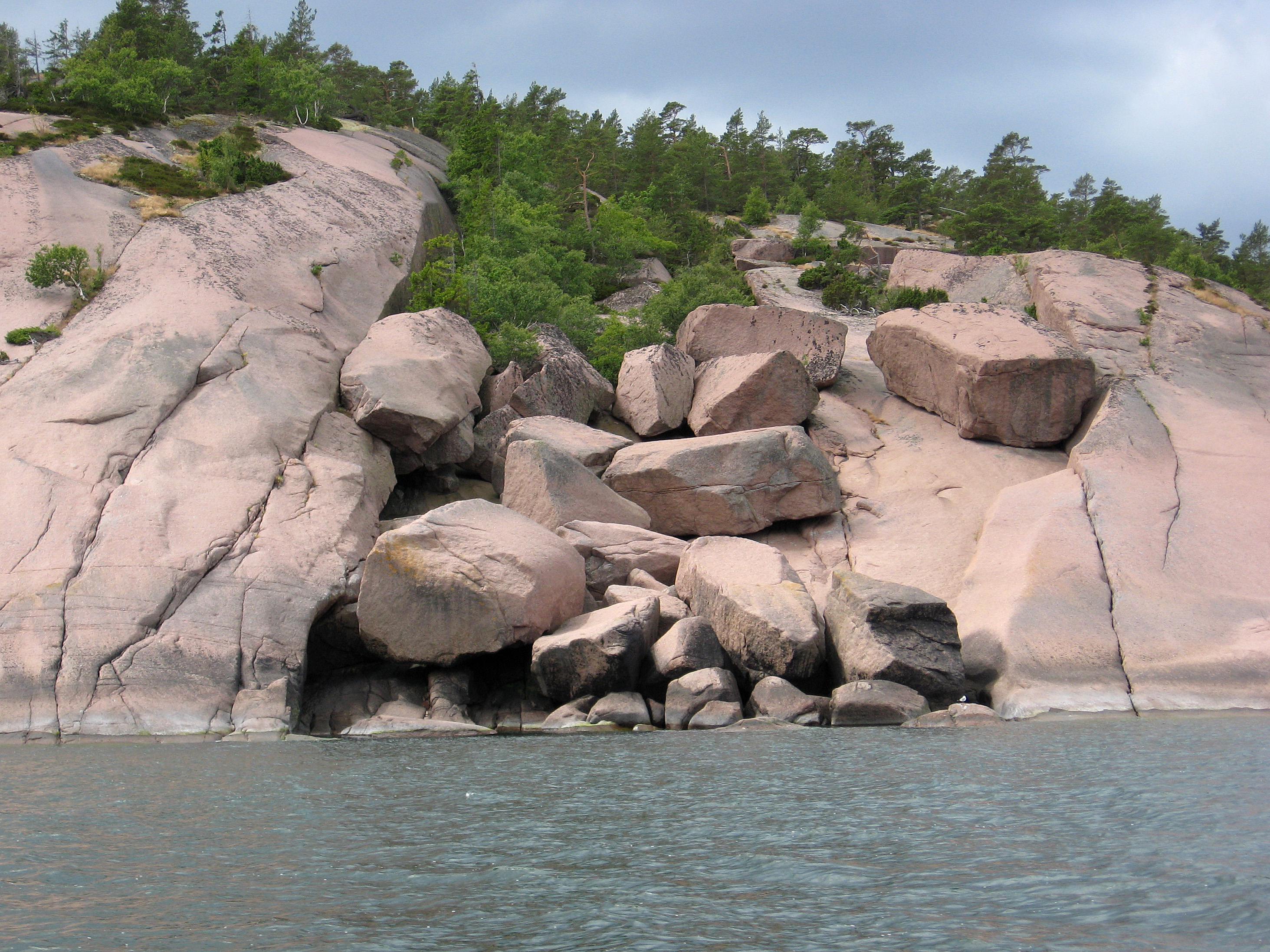 North-eastern cape of national park Blå Jungfrun, Sweden.